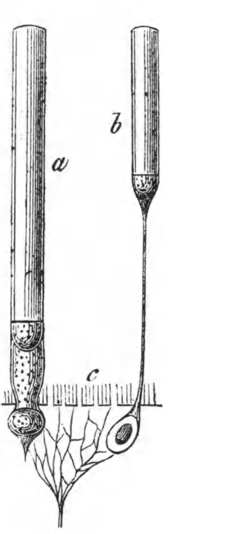 Green and red rod cells drawn by German anatomist Gustav Schwalbe in his 1874 paper: "Mikroskopische Anatomie des Sehnerven, der Netzhaut und des Glaskörpers."